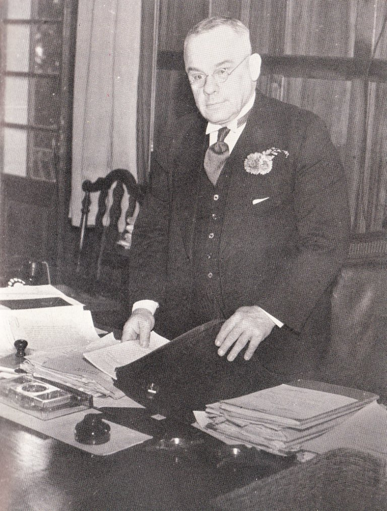 Jan Hofmeyr, South Africa's Minister of Finance during the Second World War. Hofmeyr is about to deliver his budget speech.